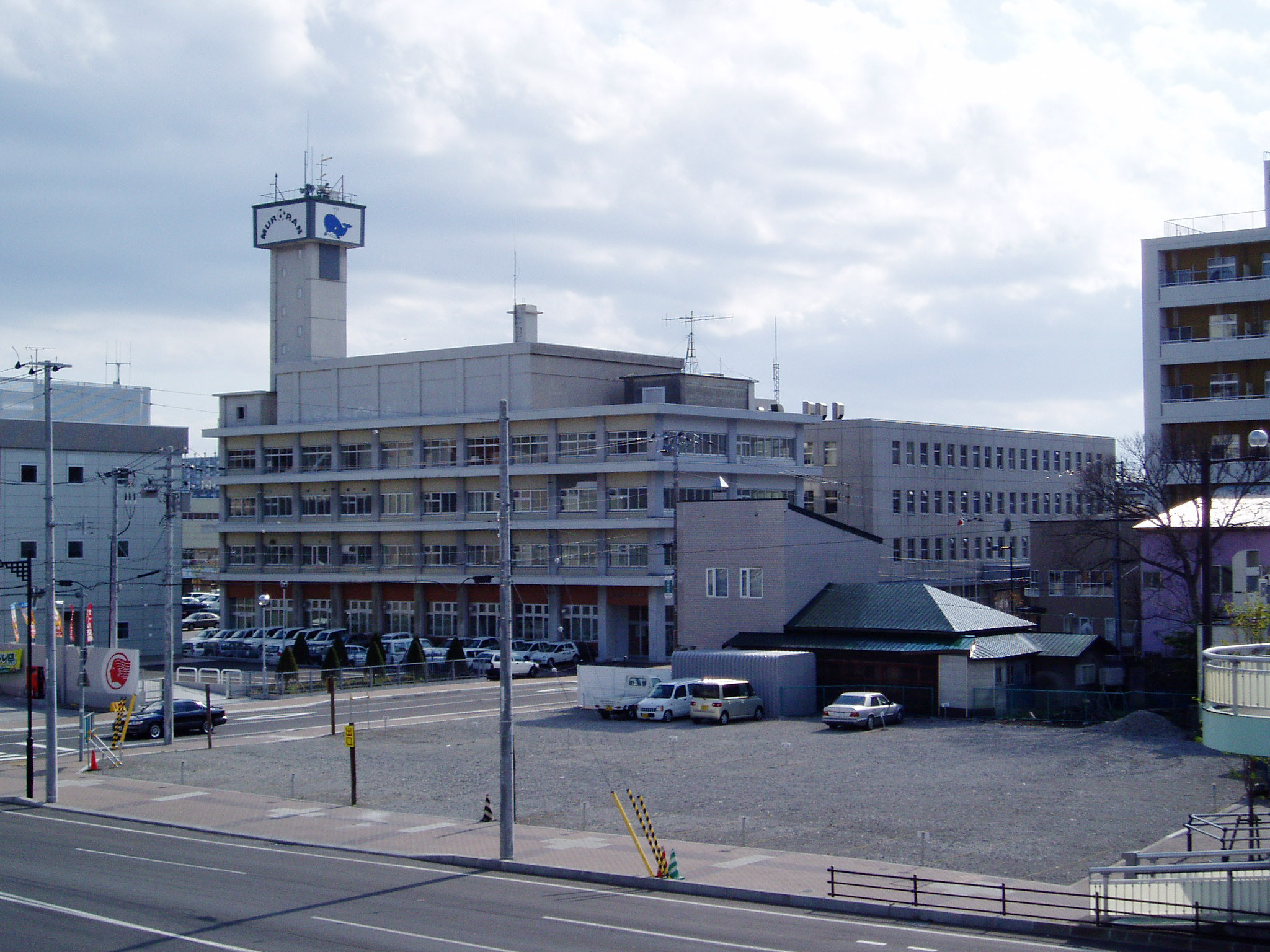 Muroran City Hall in Hokkaidō, Japan